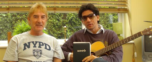 John Lawton (singer, UK) and Jan Dumée (guitarist, Holland)